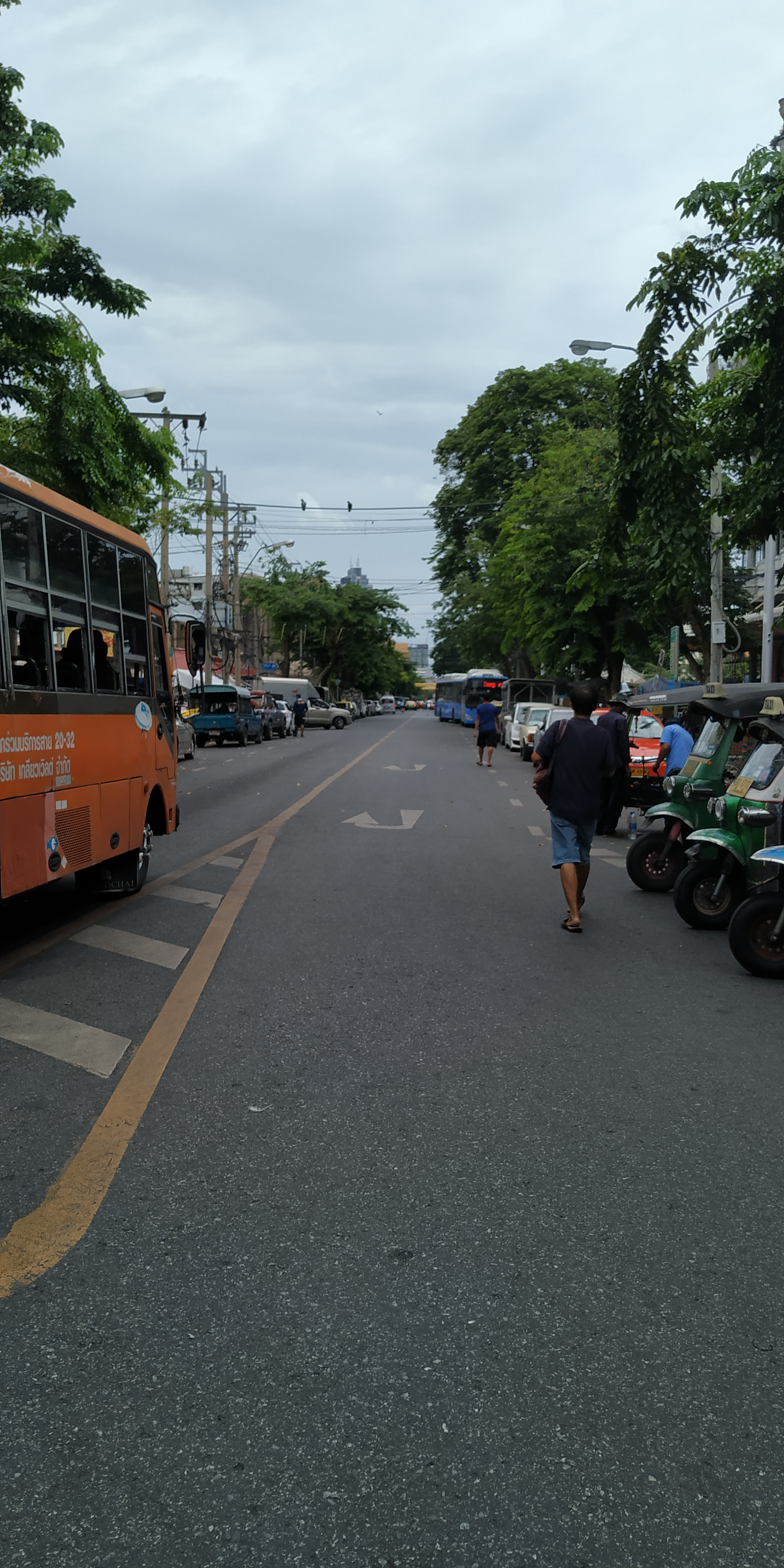 Tha Dindang